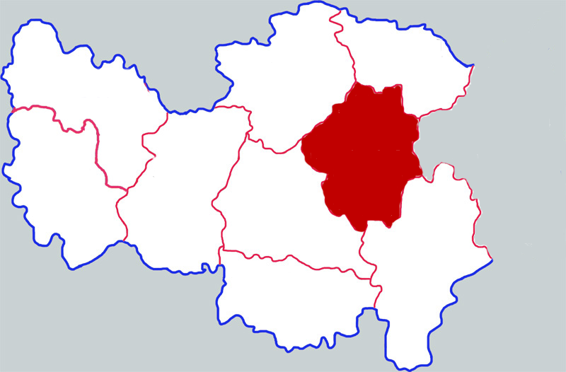 Location of Huangchuan county in Xinyang city, China